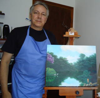 My own photo